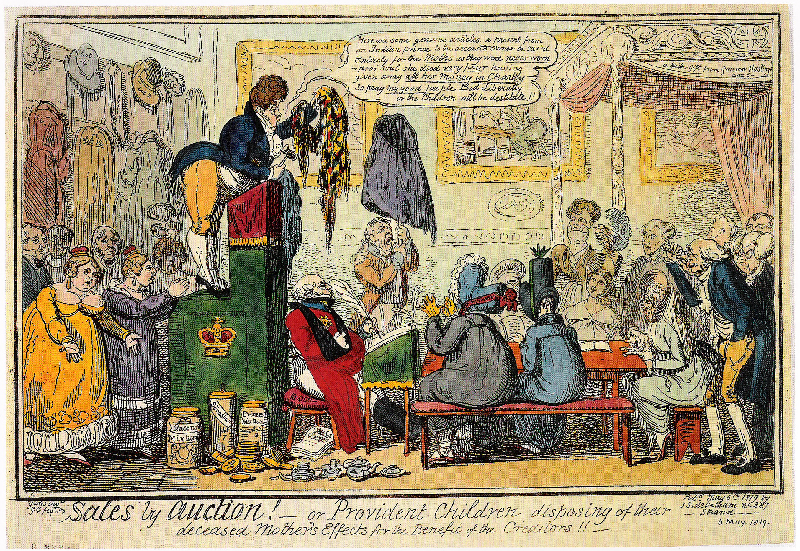 Sales by Auction! or Provident Children disposing of their deceased Mother's Effects for the Benefit of the Creditors!! The Prince Regent is depicted selling off his recently deceased mother's effects at a public auction